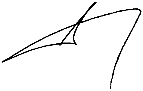 Signature of Vladislav Surkov.